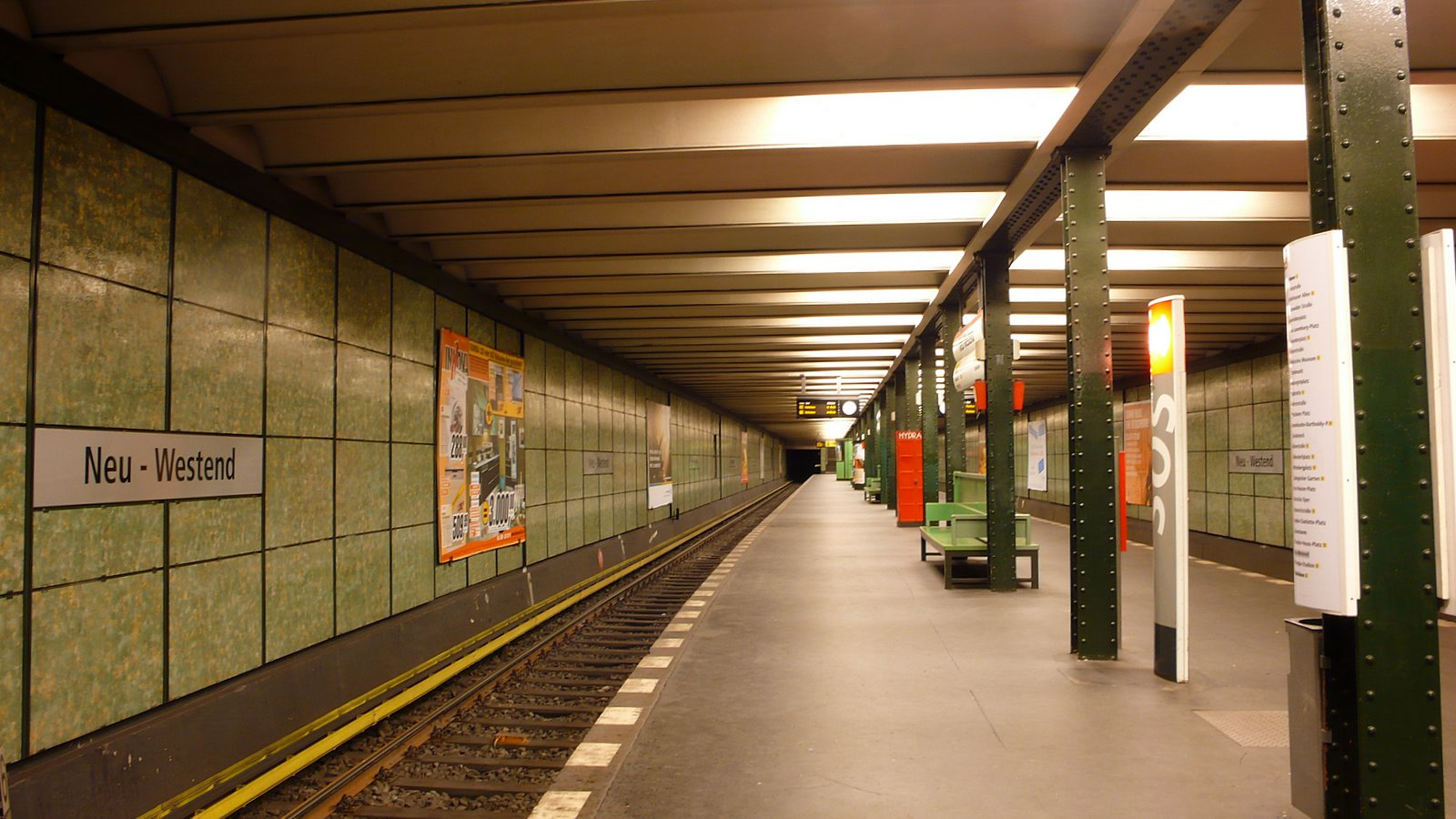 Neu-westend subway